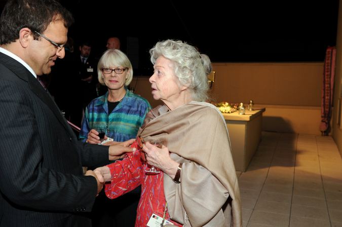 Afghan Finance Minister Omar Zakhilwal greeting Nancy Hatch Dupree at a farewell party for Deputy Ambassador Francis Ricciardone and his wife Dr. Marie along with Ambassador Mussomeli.